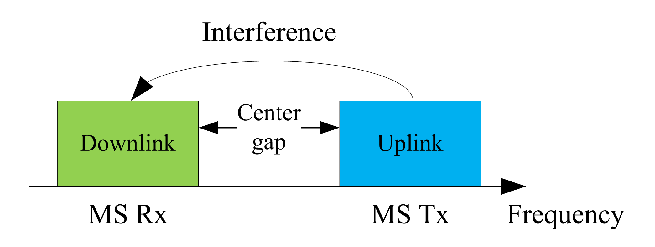 In-band interference mitigation in the APT band plan